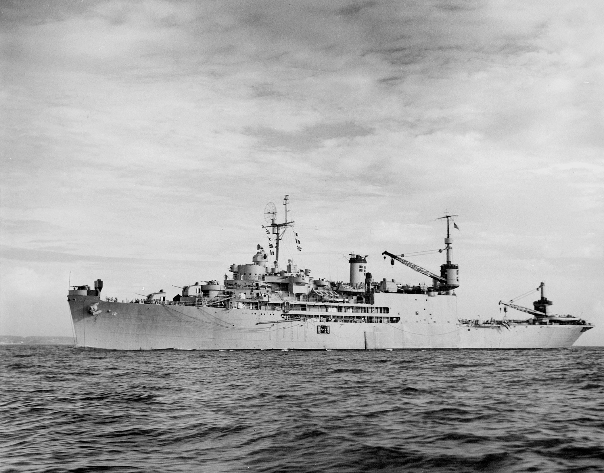 The U.S. Navy USS Pine Island (AV-12). The photograph was probably taken between 1946 and 1950, when she still carried the SK-2 radar.